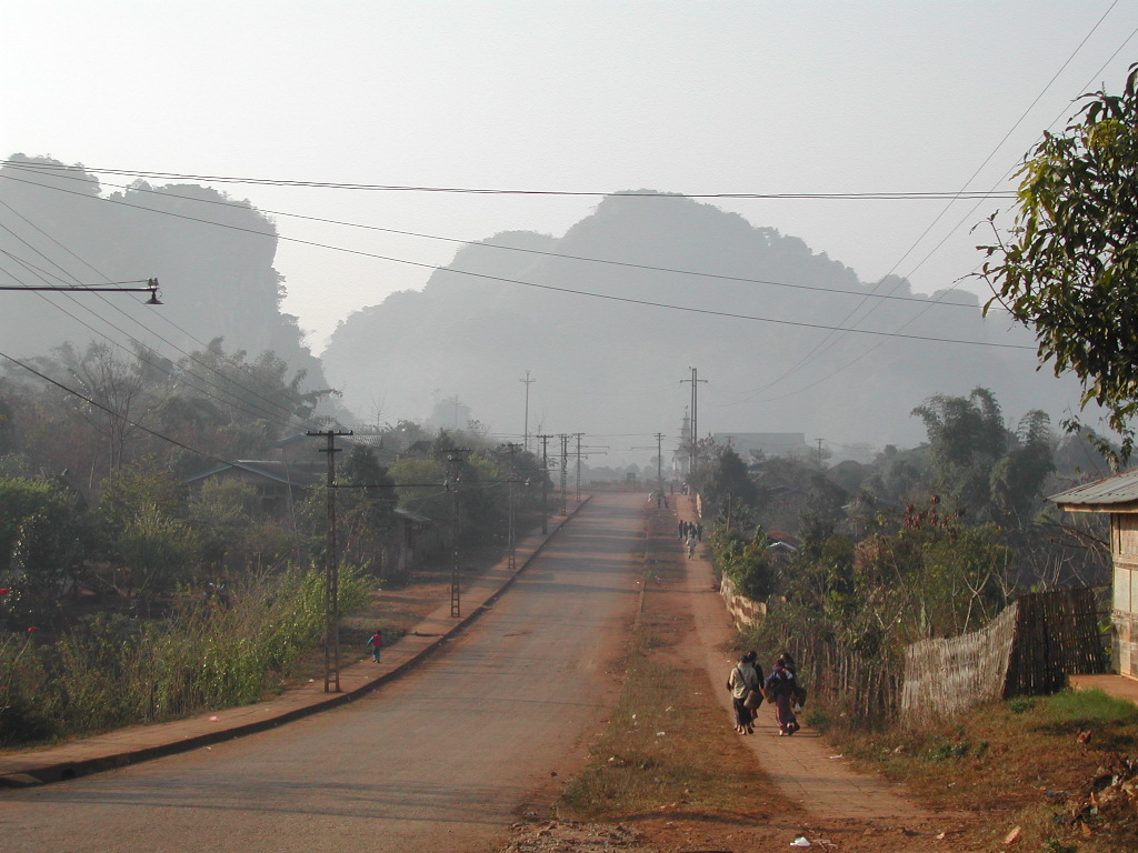 This is the main street in Vieng Xai, Laos.